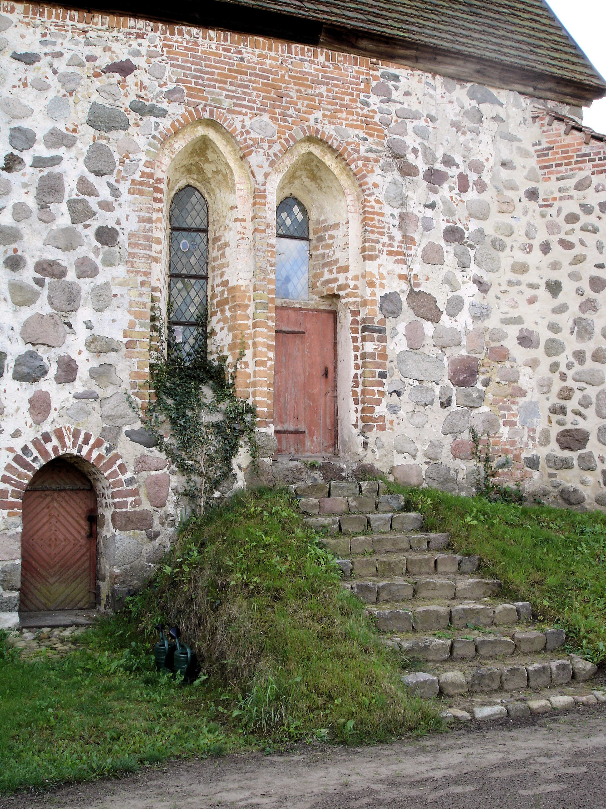 Church in Thelkow, Mecklenburg, Germany